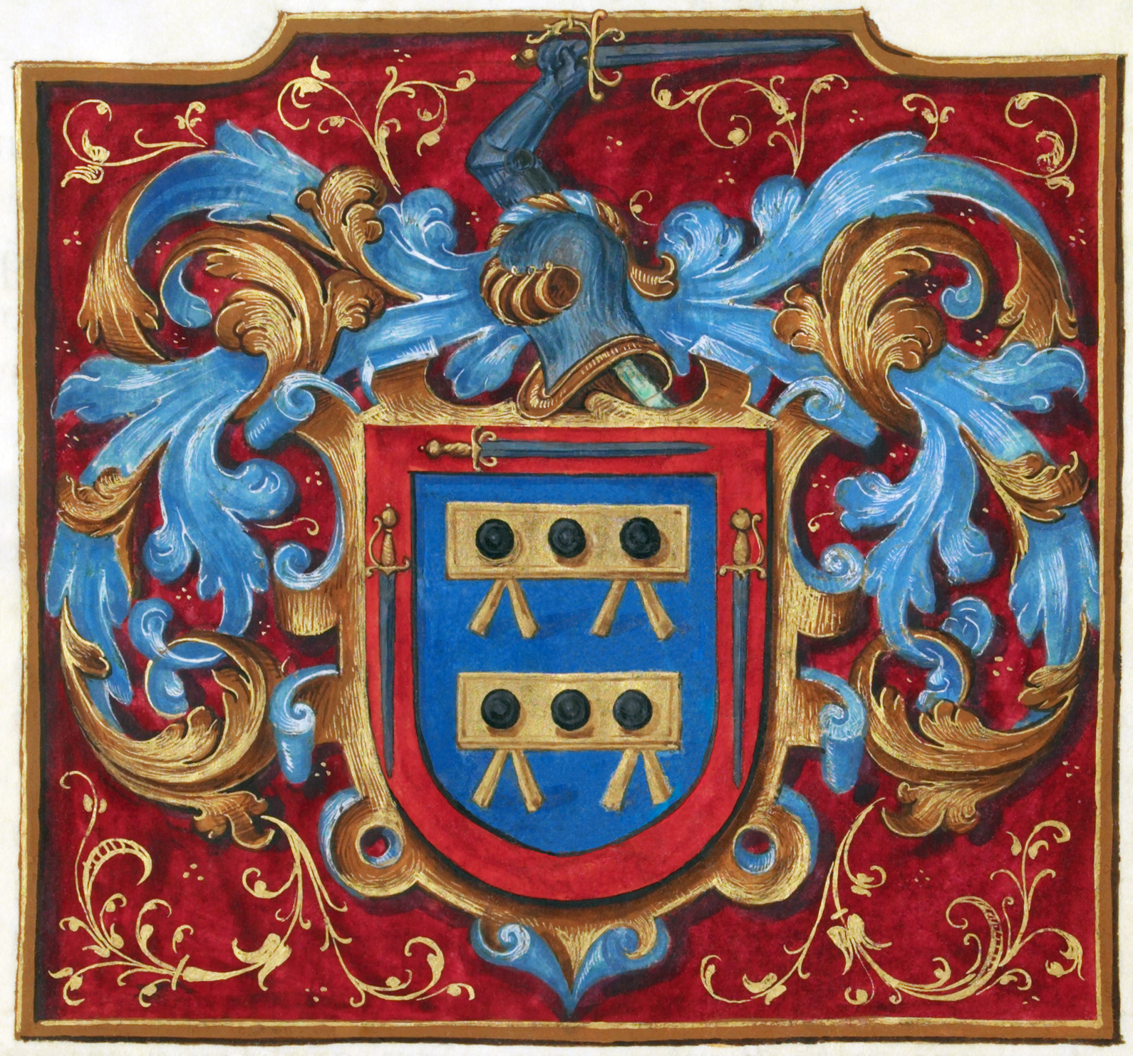 Coat of arms illustration from a grant of nobility from King Philip II of Spain to Alonso de Mesa and Hernando de Mesa. Digitized from a 19 page manuscript signed by the king.